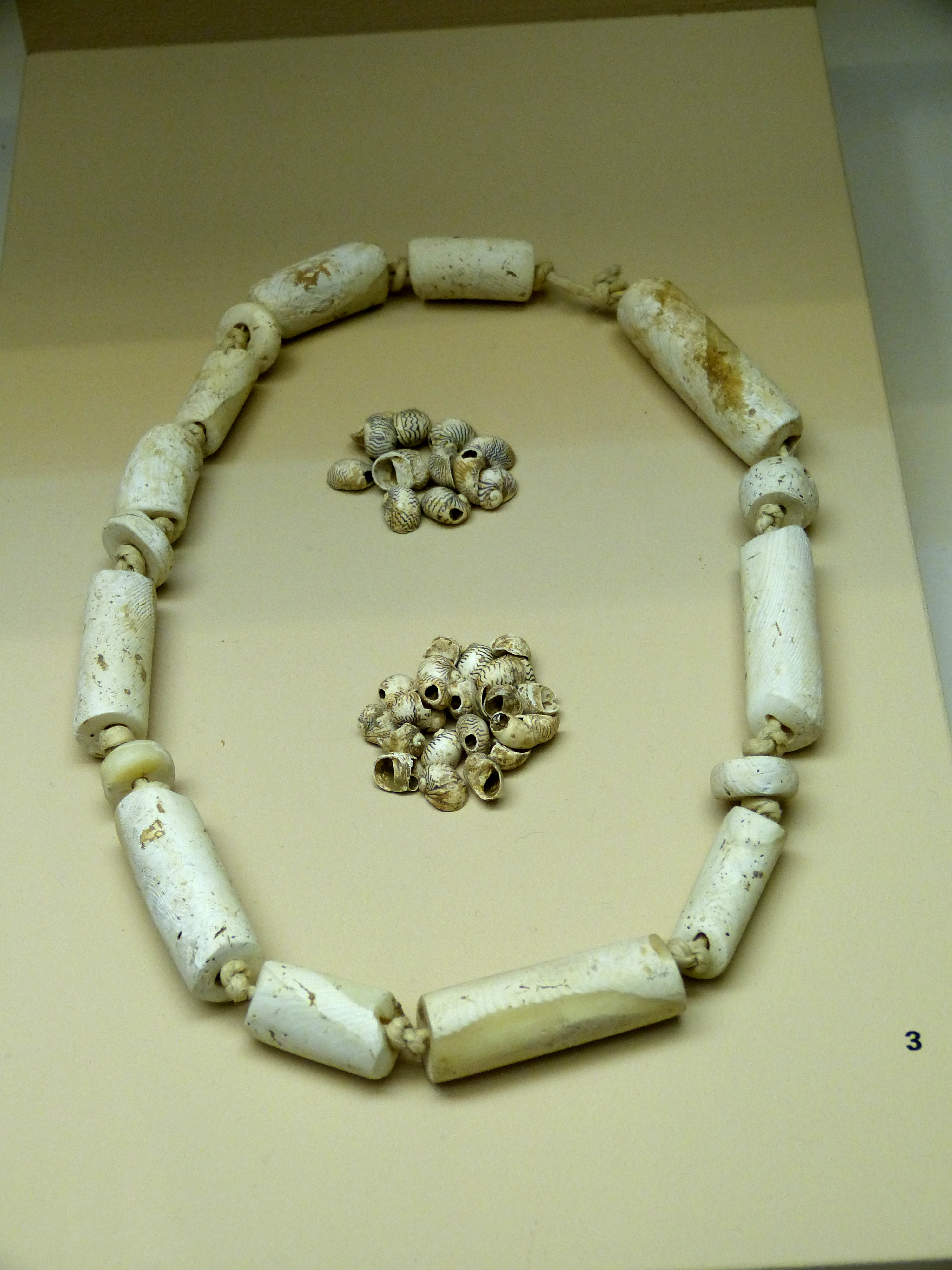 Straubing ( Lower Bavaria ). Gäubodenmuseum: Necklace from a grave in the Linear Pottery culture cemetery of Aiterhofen - Ödmühle.